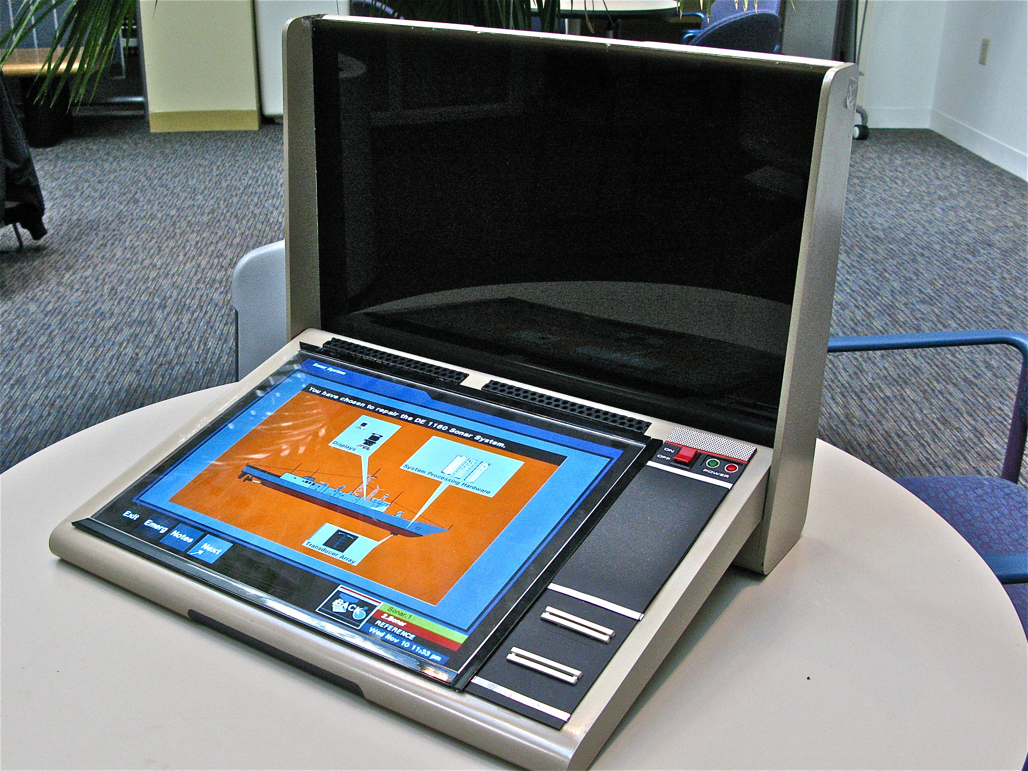 EDS was a 1978-1981 hypertext research project at Brown University by Steven Feiner, Sandor Nagy and Andries van Dam. The actual software ran on a VAX 11/780 and Ramtek display. This mockup was created circa 1980 by a RISD industrial design student to demonstrate how the software might be used in an portable electronic maintenance manual, with branches chosen by the technician or based on signals from a diagnostic probe.